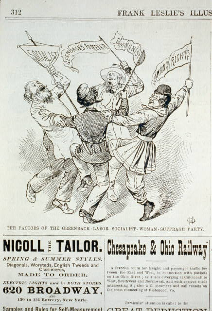 The factors of the Greenback-Labor-Socialist-Woman-Suffrage Party